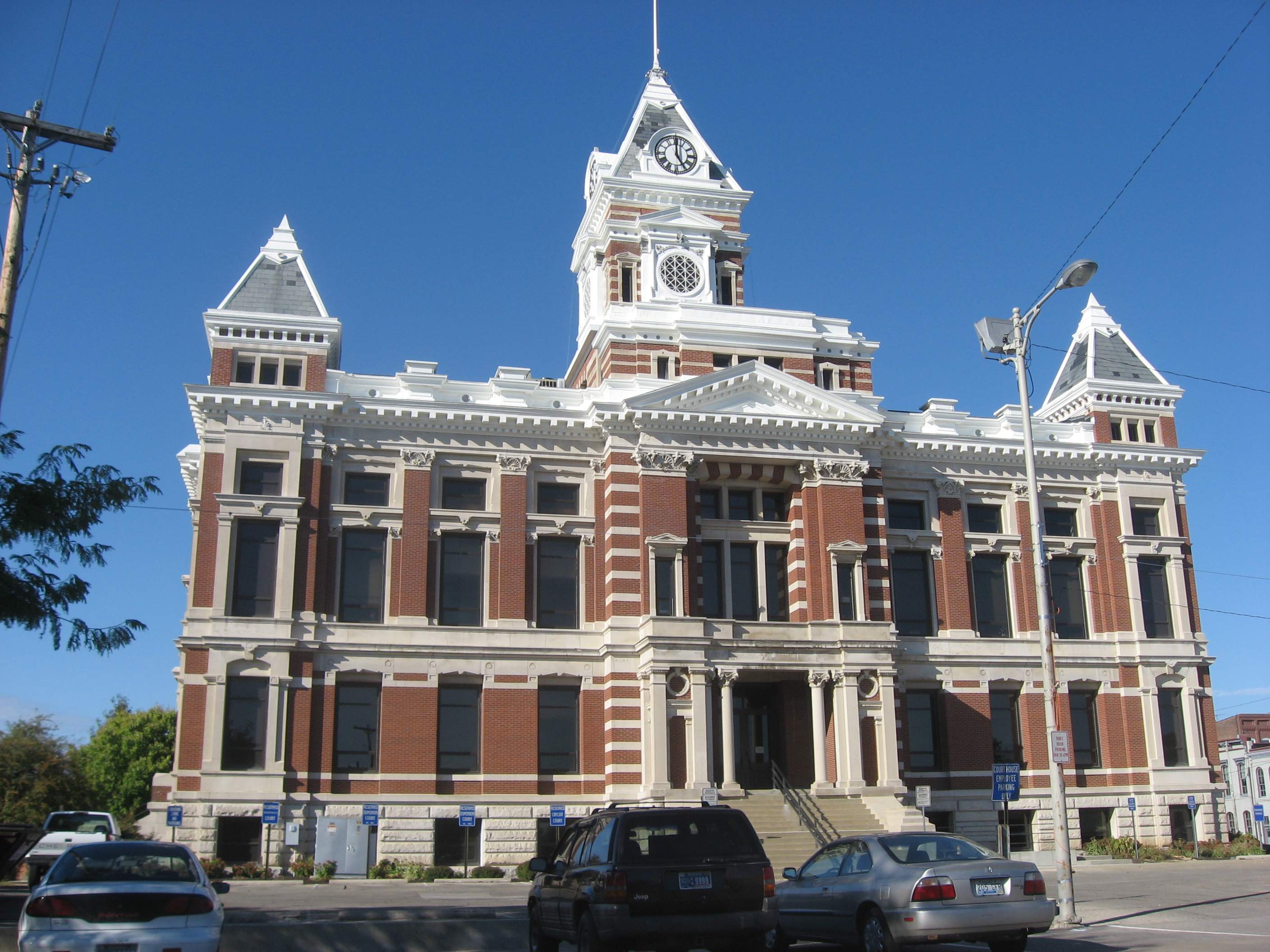 Southern front of the Johnson County Courthouse, located on Courthouse Square in downtown Franklin, Indiana, United States. Built in 1879, the courthouse is part of two historic districts that are listed on the National Register of Historic Places: the Johnson County Courthouse Square and the Franklin Commercial Historic District.